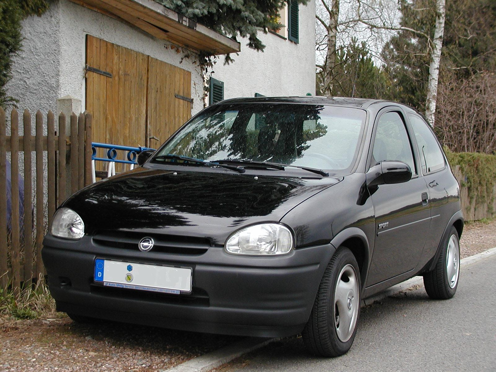 This is my Opel Corsa B Sport. Build 11/1994 66KW/90hp